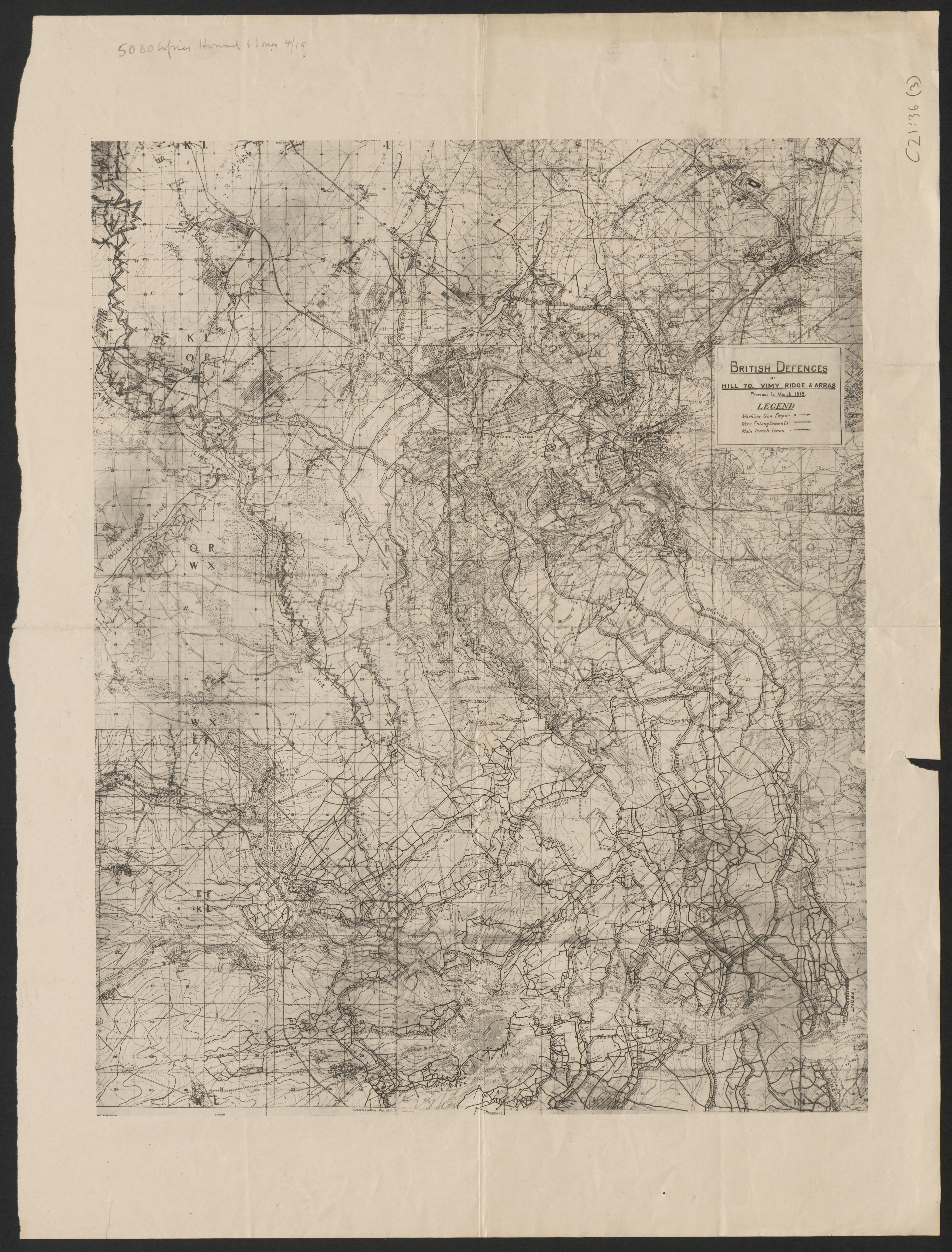 WWI map from the collections of the National Library of Wales